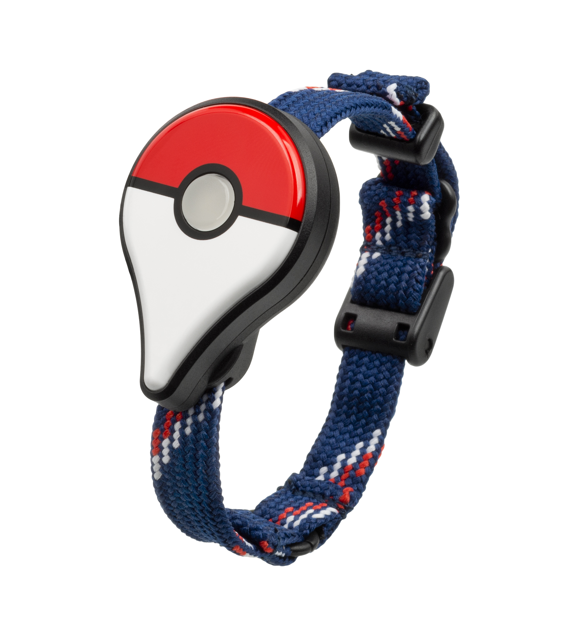 The Pokemon Go Plus, a Bluetooth device that allows users to perform certain actions without having to look at Pokemon Go on their phone.